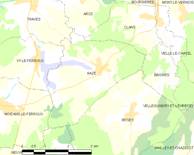 Map of French municipality